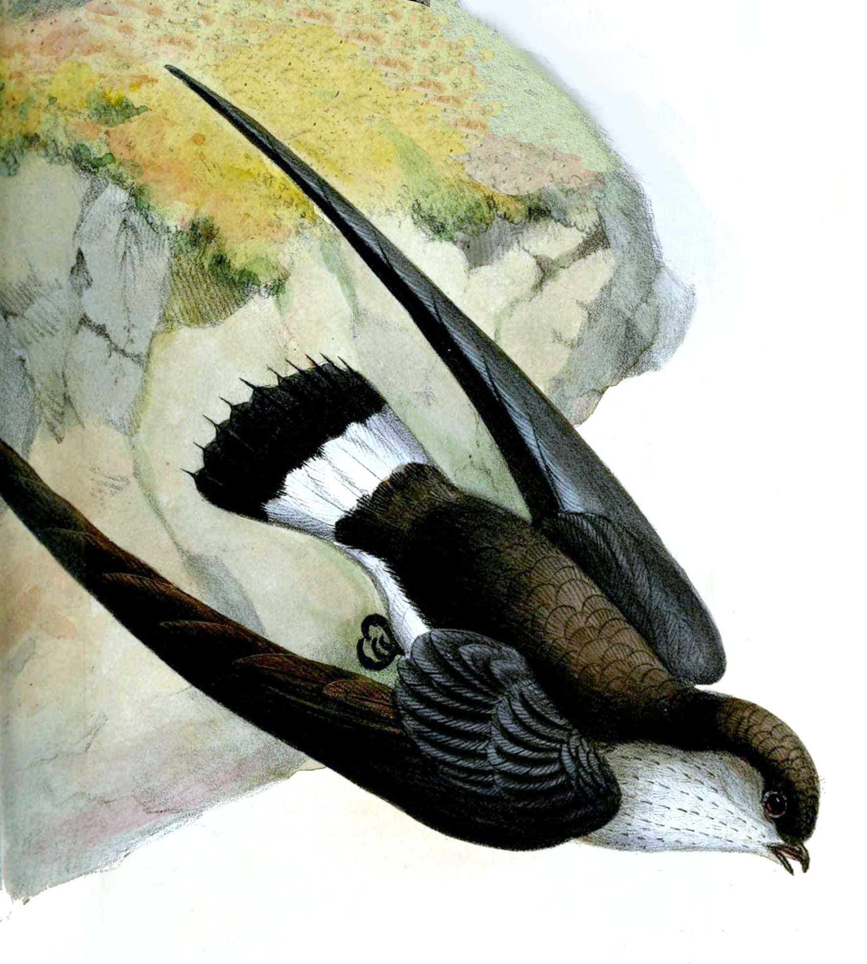 Cassin's Spinetail (below)